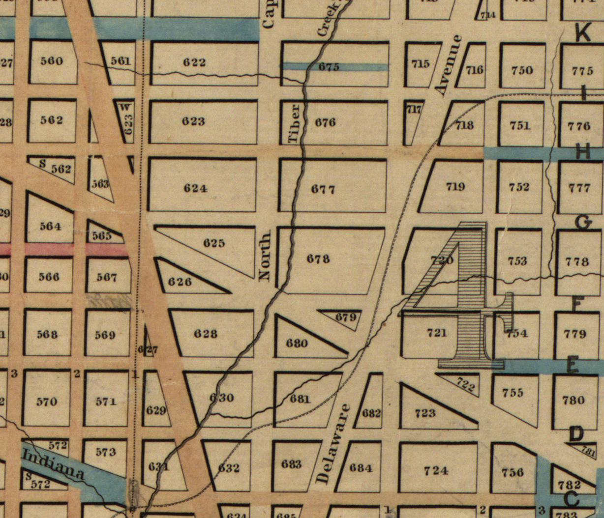 Map of Washington D.C. by William James Stone, 1839. Detail showing the paved areas marked blue, red and beige in Swampoodle around 1873 and the location of Tiber Creek.